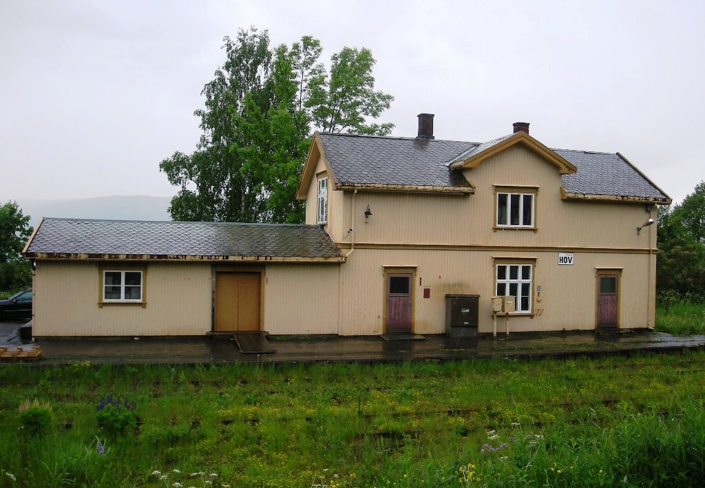 Hov station on the Valdres line (Norway)